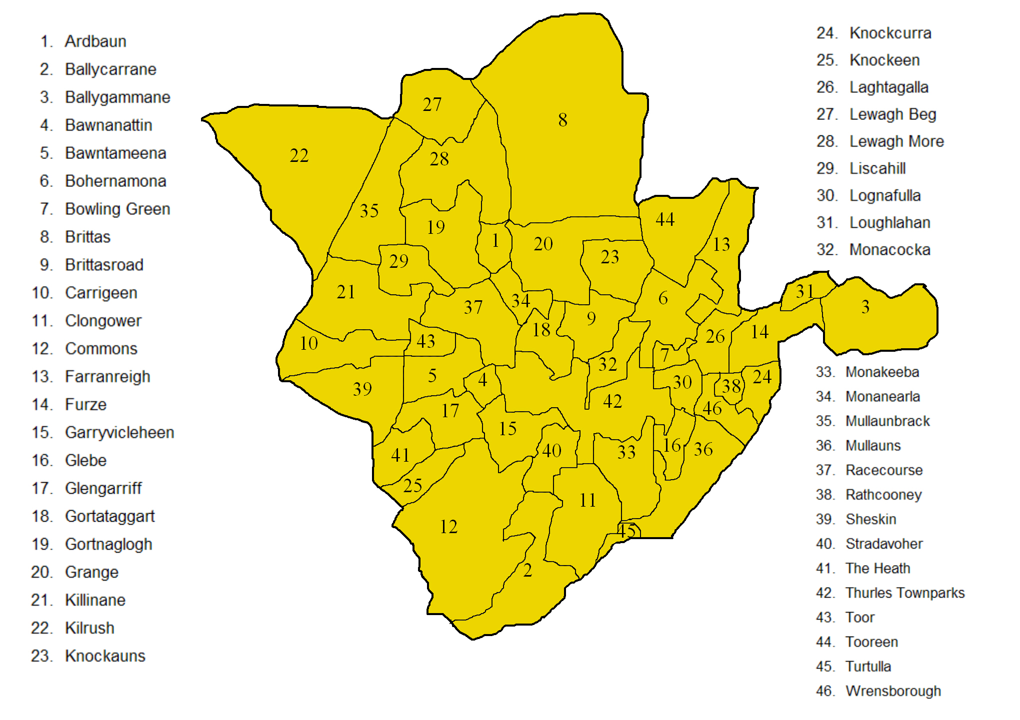 Improved map showing townlands in Thurles civil parish in North Tipperary, the improvement being to deal correctly with the boundary of that part of Farranreigh that protrudes into Bohernamona. A version of this map without the names is available here. Both maps are derived from derived from information in this Ordnance Survey map, corrected with information taken from this newer Ordnance Survey map in order to decide how to handle the boundary of that part of Farranreigh that protrudes into Bohernamona.